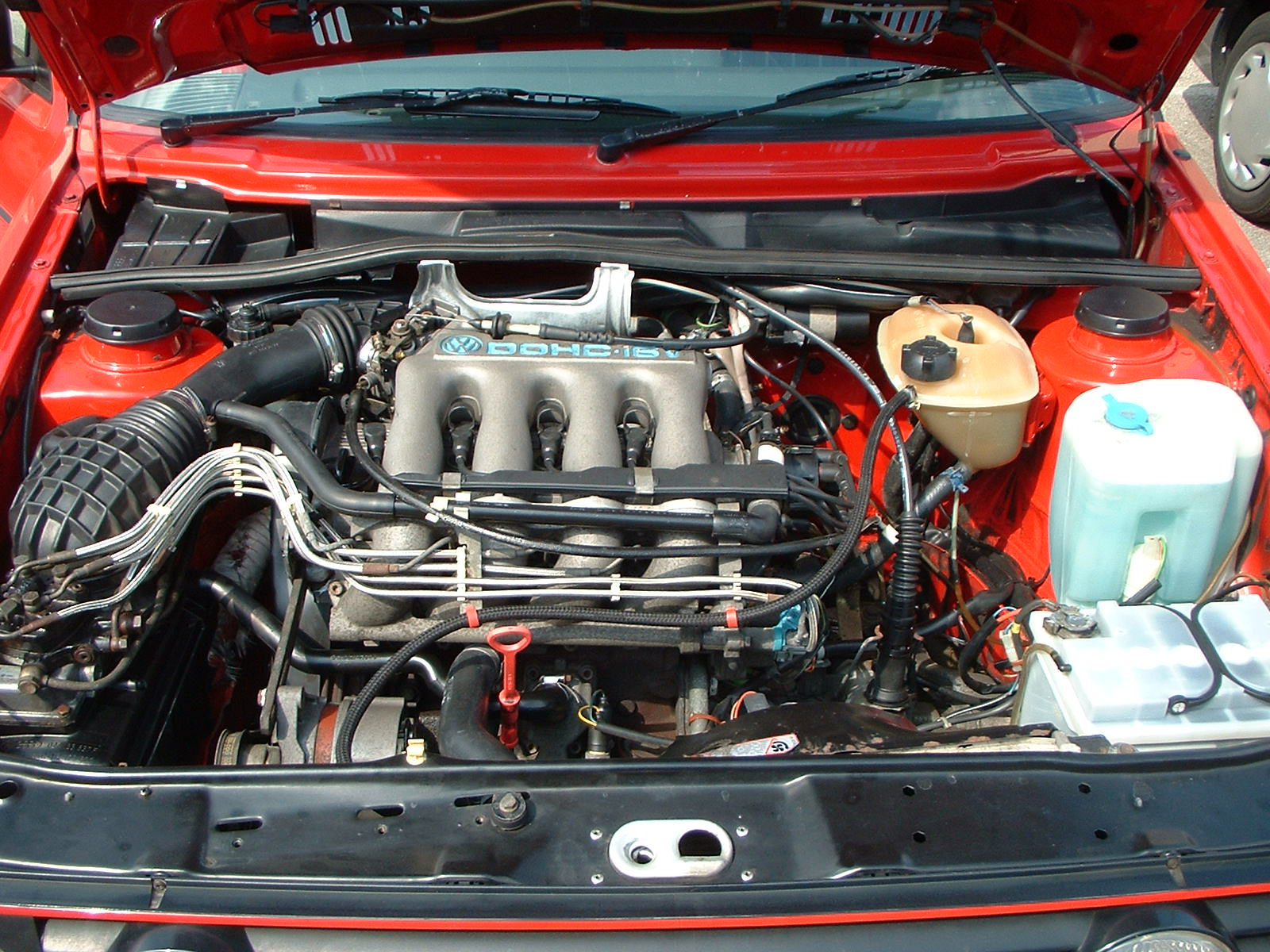 Volkswagen Golf Mk2 16v GTi, photographed by the Wikipedia member in the summer of 2003, Car is member's own.